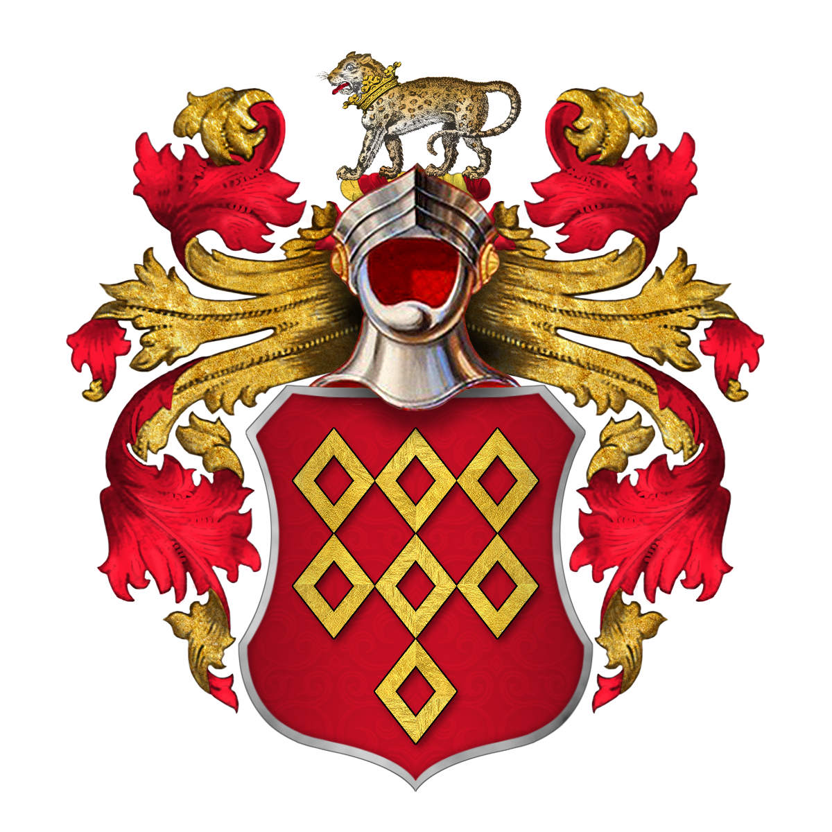 Coat of arms of Sir William Ferrers, of Groby: Gules, seven mascles or conjoined 3:3:1. (Also the arms of Roger de Quincy, Earl of Winton. Reference: A GLOSSARY OF TERMS USED IN HERALDRY by JAMES PARKER, first published in 1894.)